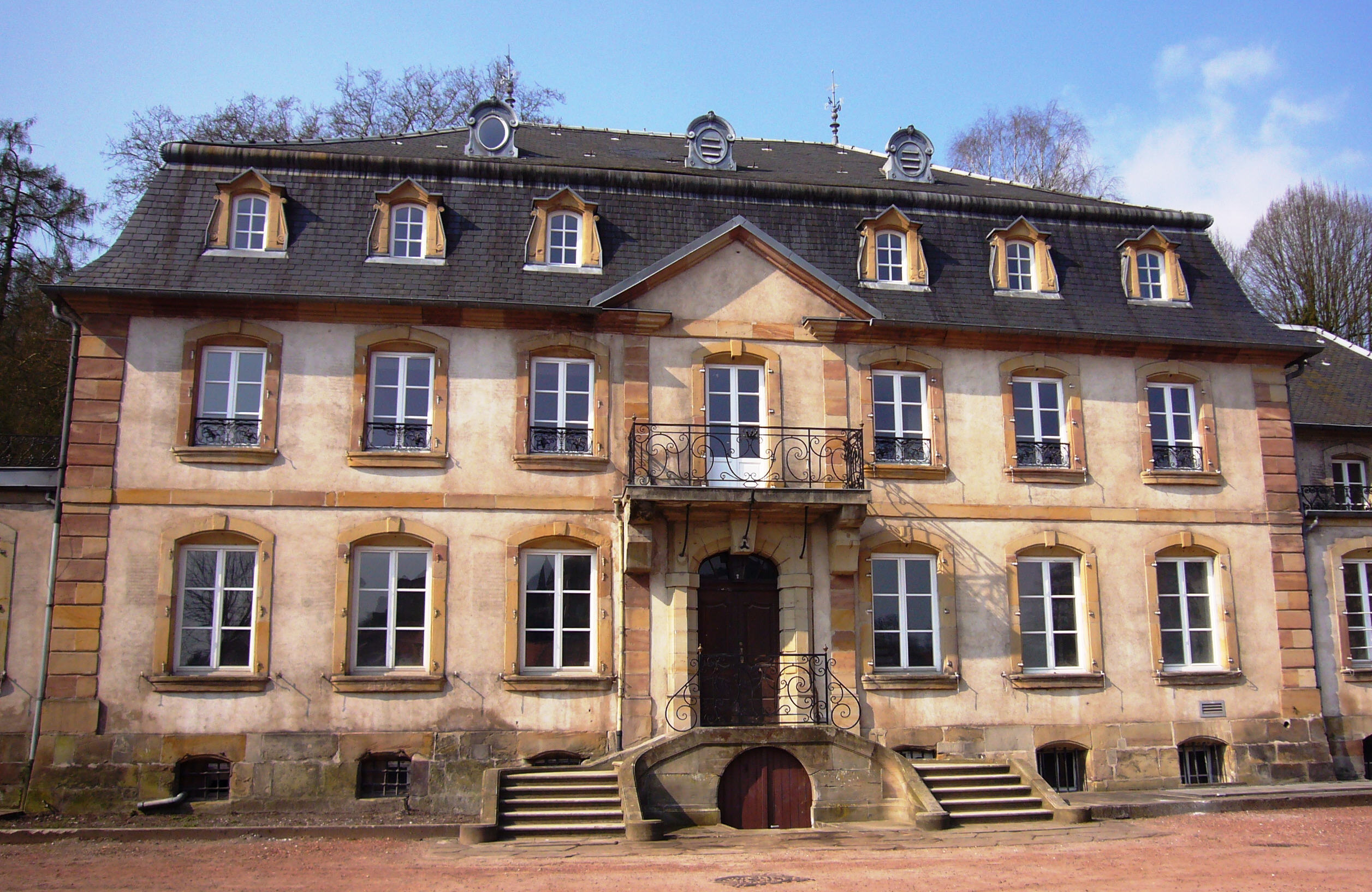 Hausen's castle - XVIIIe siècle (city hall)